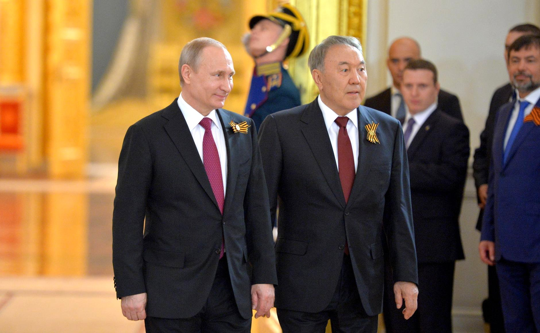 Reception to mark Victory Day 2016-05-09